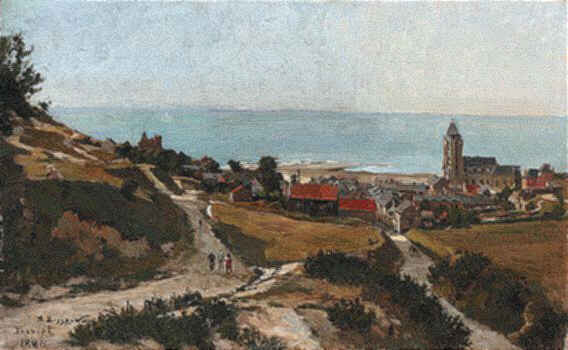 Alexander Karlovich Beggrov (1841-1914) Le Tréport